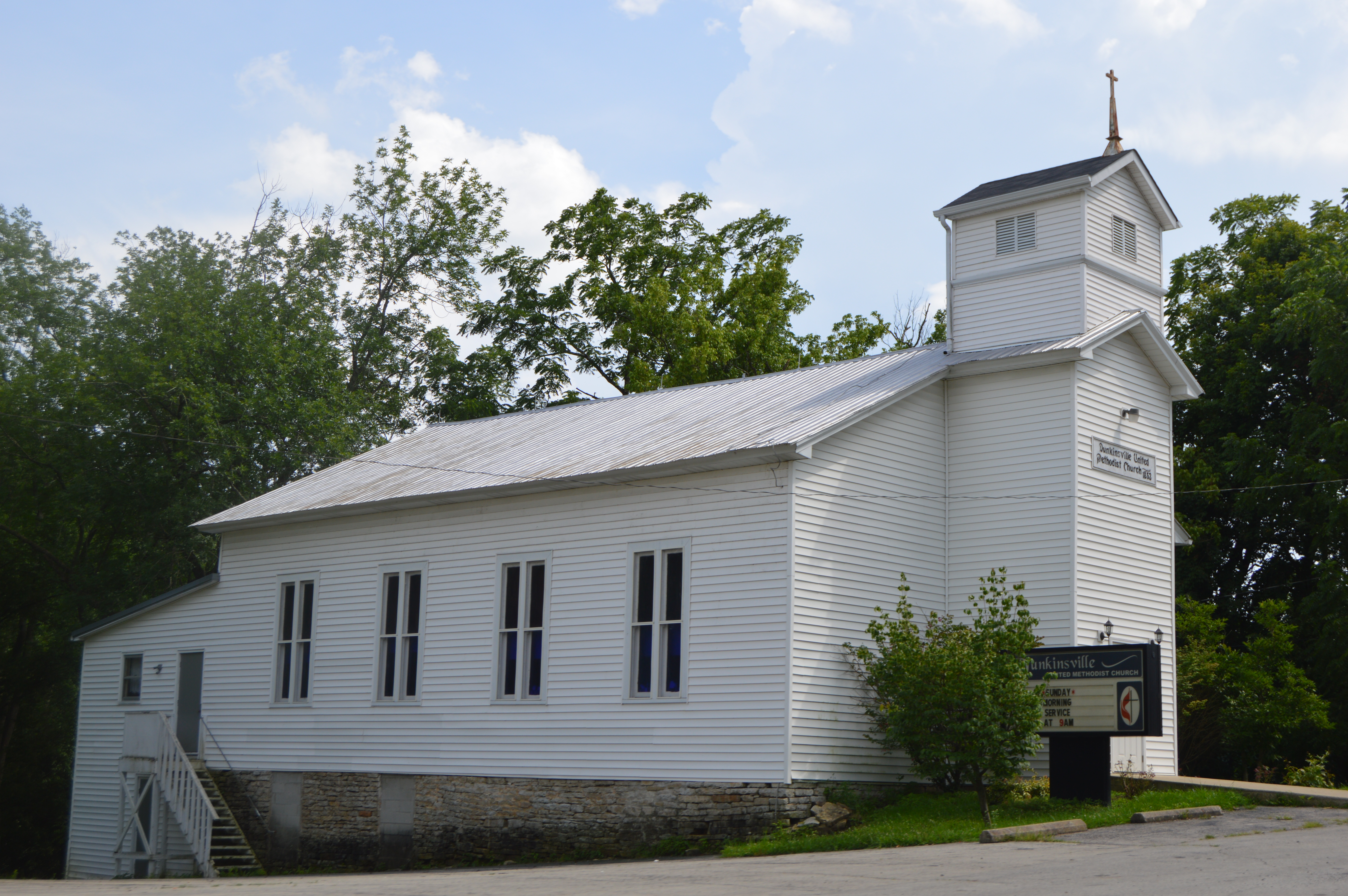 Front and northern side of the Dunkinsville United Methodist Church, located at 18916 State Route 41 at Dunkinsville in far southeastern Oliver Township, Adams County, Ohio, United States. It was built in 1853.